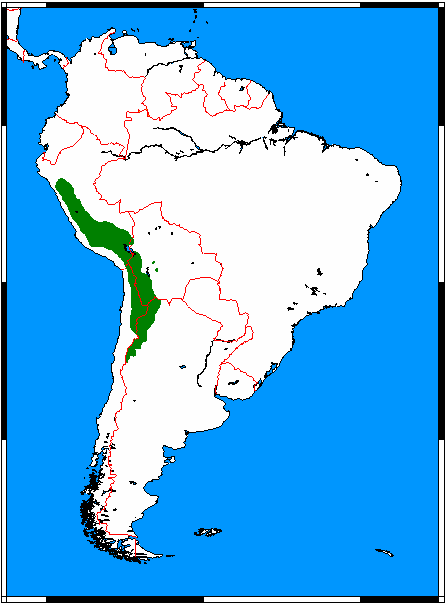 Range map for Vicuña (Vicugna vicugna), made by me with help of Map depending on the range map at IUCN red list.